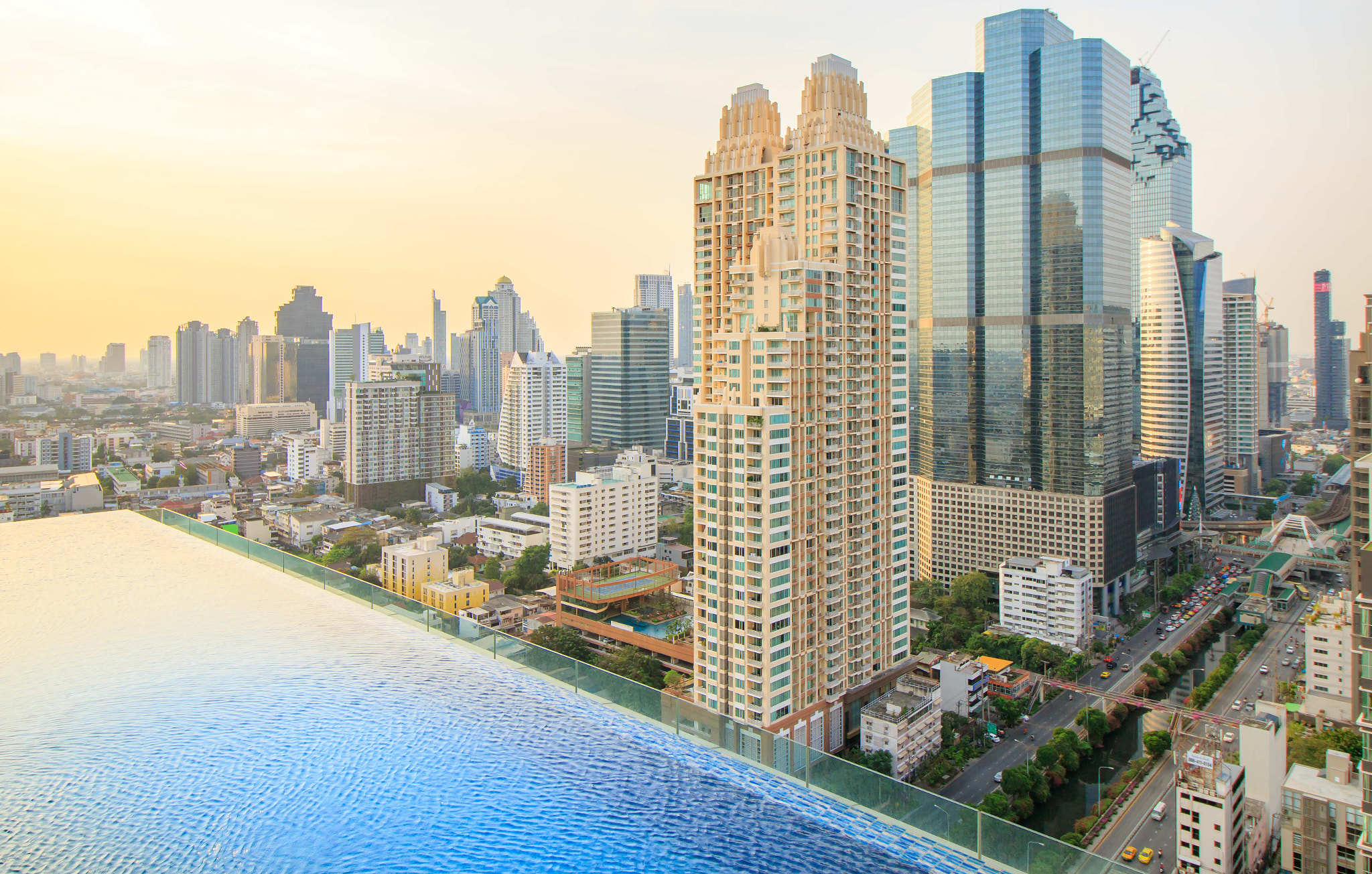 500px provided description: Welcome to bangkok [#city ,#cityscape ,#marina ,#skyline ,#skyscraper ,#waterfront ,#city life ,#high-rise ,#high rise ,#downtown district ,#gulf countries ,#macarthur causeway bridge]